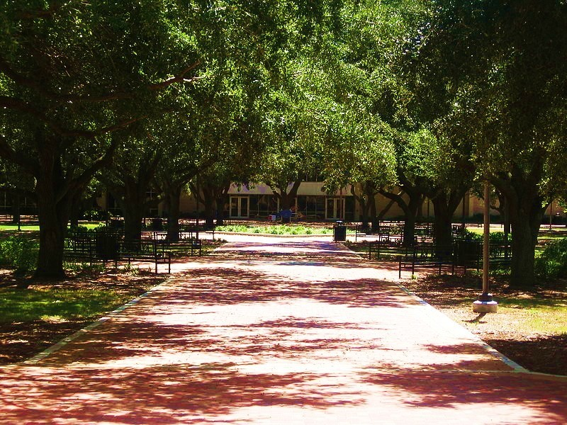 Quadrangle